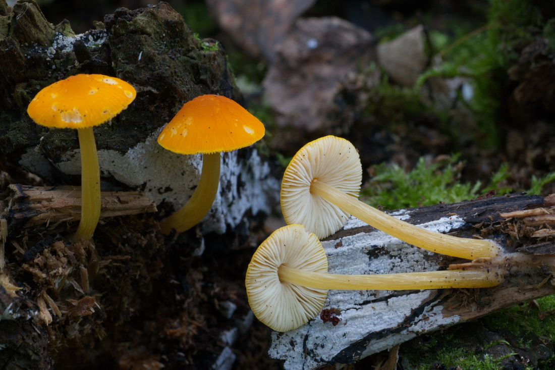 Pluteus admirabilis Peck Image location: Akademgorodok, Novosibirsk, Russia A Pluteus sect. Celluloderma which is much less common in our area than P. chrysophaeus (and probably mistaken for it). It differs in much brighter pileus colors with no brown hues whatsoever and golden yellow stipe (not white). I’m attaching a cross-section of the pileus to show the inflated element shape and pigment distribution, which differ from the true P. chrysophaeus in being much brighter and narrower, without any traces of brown pigment (cf. ) Recognized by sight For more information about this, see the observation page at Mushroom Observer.